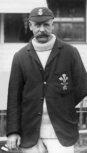 Cricketer Tom Hayward at Wisbech